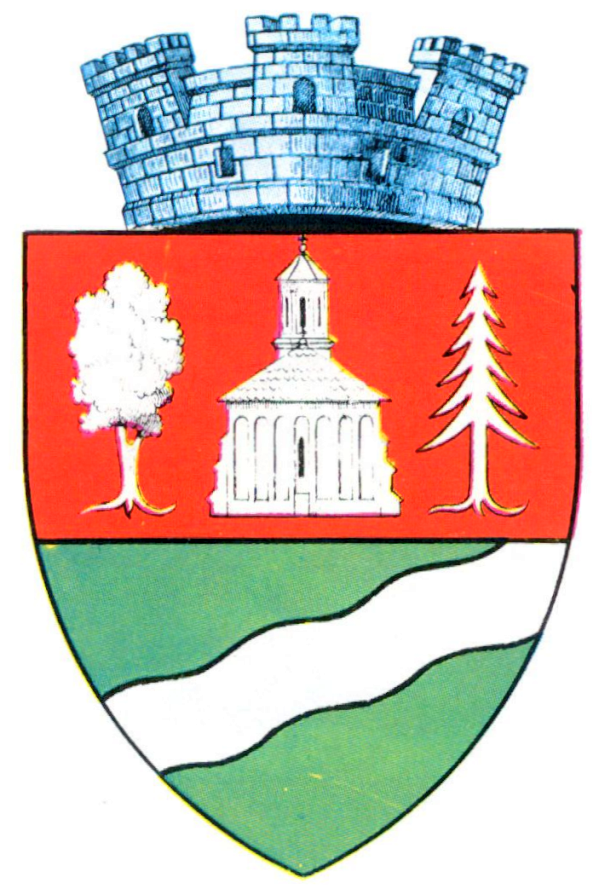 Interwar coat of arms of Solca, Suceava County, Kingdom of Romania.